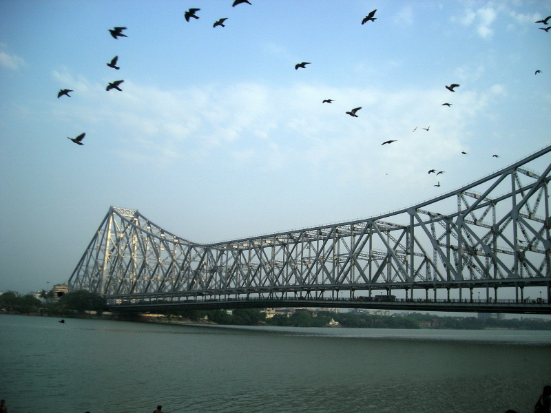 Howrah Bridge- A bridge on River The Ganges connecting two cities named Kolkata and Howrah in West Bengal